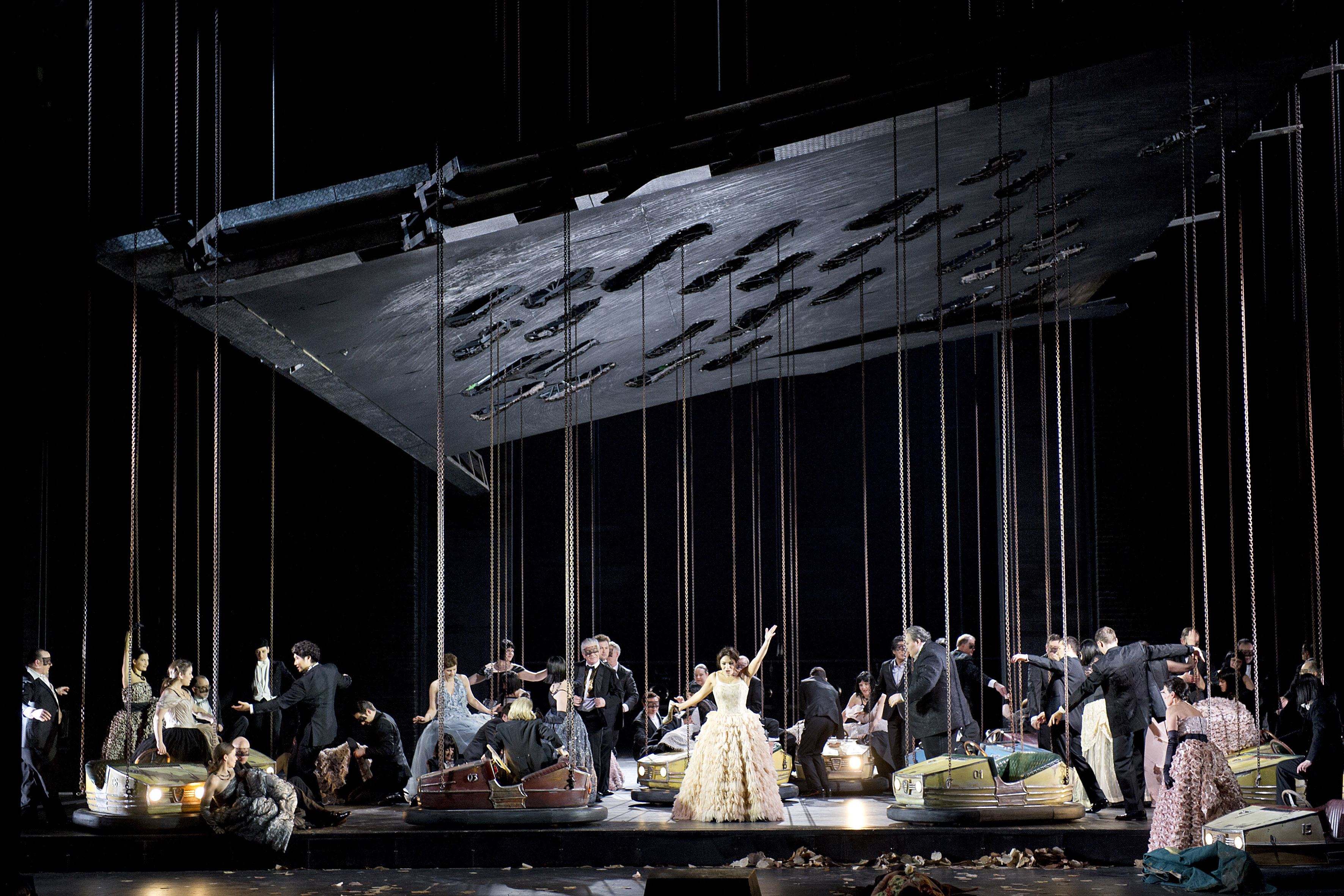 Production of La Traviata at Hamburgische Staatsoper 2013, stage photo: Maria Markina as Floria Bervoix, Ailyn Pérez as Violetta Valéry, Stefan Pop as Alfredo, Jan Buchwald as Il Barone Duphol, choir, extras.